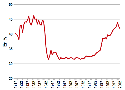 The top decile income share in the US (1917-1998). Data from Emmanuel Saez and Thomas Piketty, "The Evolution of Top Incomes: A Historical and International Perspective" , avalable on this site.